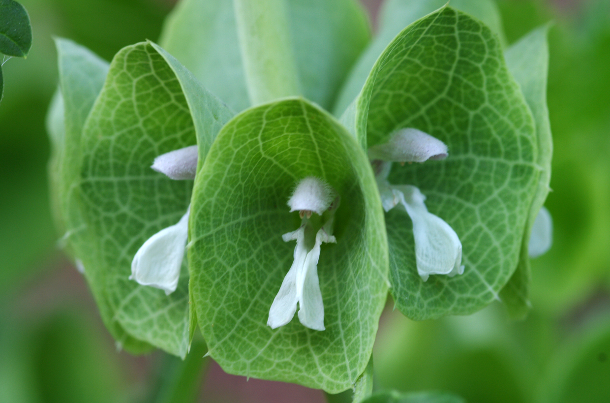 Bells-of-Ireland, Molucca balm, Shell flower (Moluccella laevis). Çukurova University Campus. Adana - Turkey.